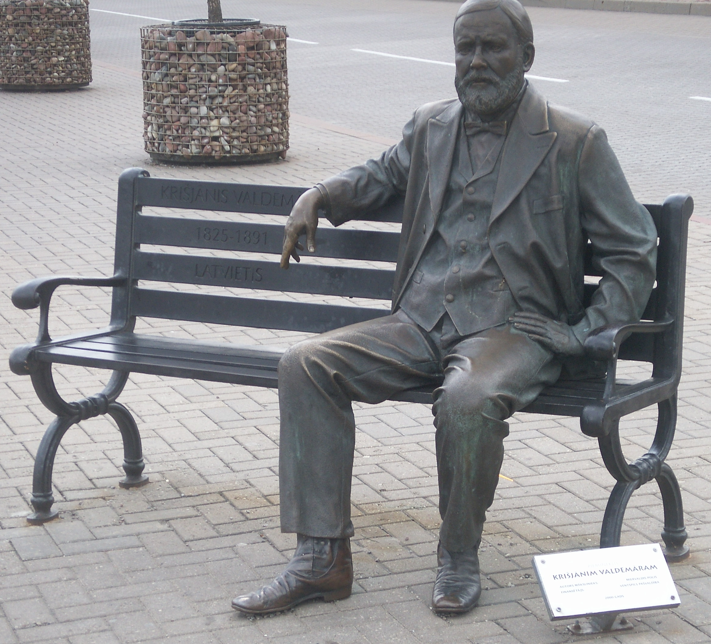 Sculpture for Krišjānis Valdemārs in Ventspils; by Miervaldis Polis, 2000